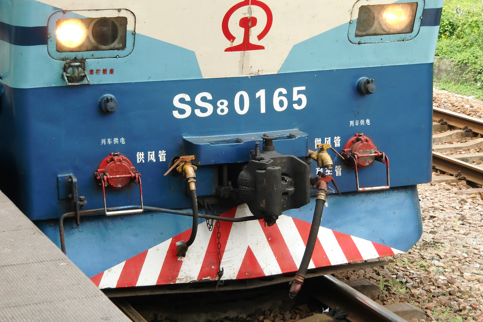 The coupler and other sockets of a China Railways SS8 electric locomotive